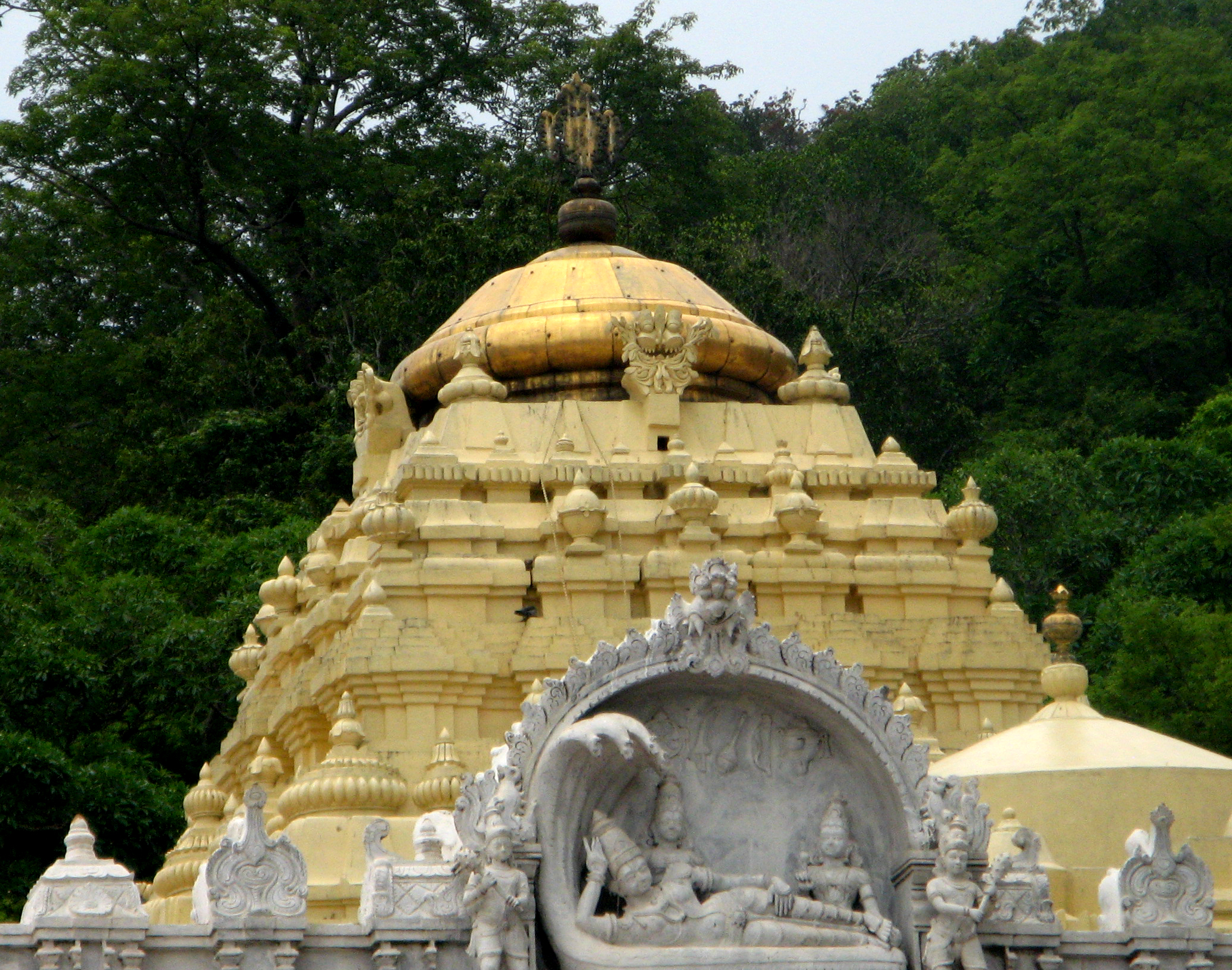 Simhachalam Temple Vimana Gopuram (dome) View, Simhachalam, Visakhapatnam